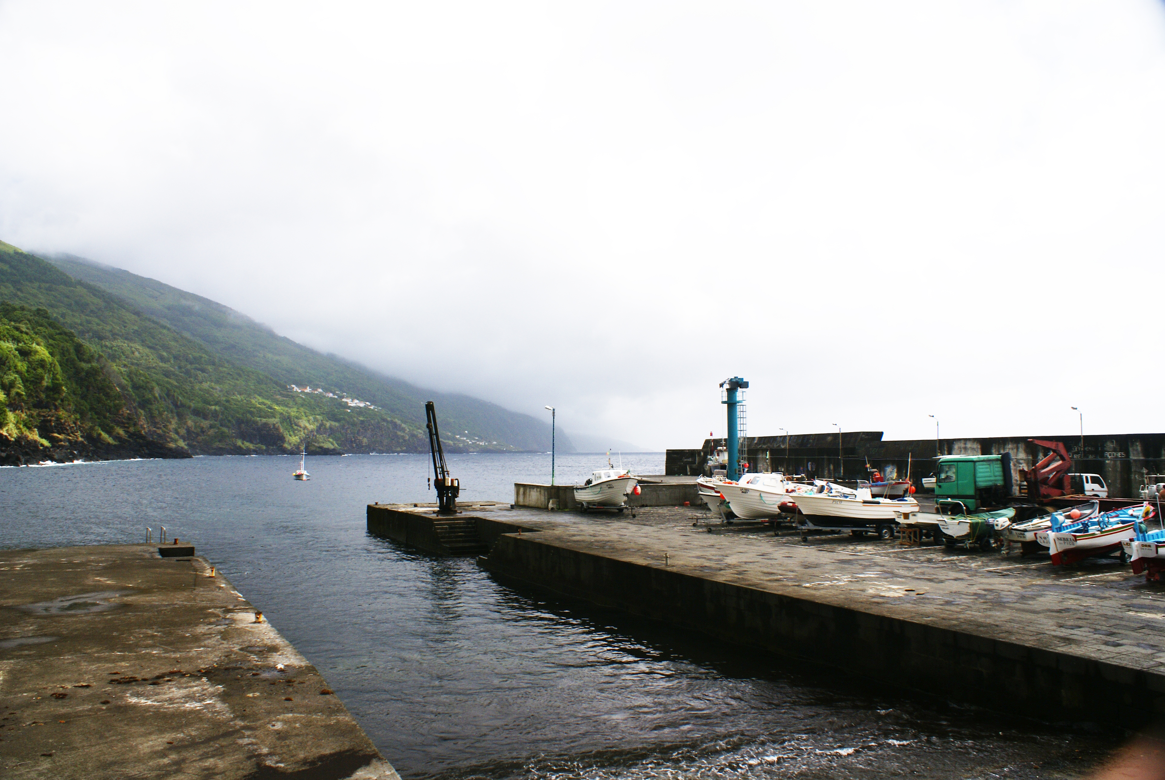 Porto das Ribeiras de Santa Cruz , Santa Cruz das Ribeiras, Porto piscatório, concelho das Lajes do Pico, ilha do Pico, Açores, Portugal